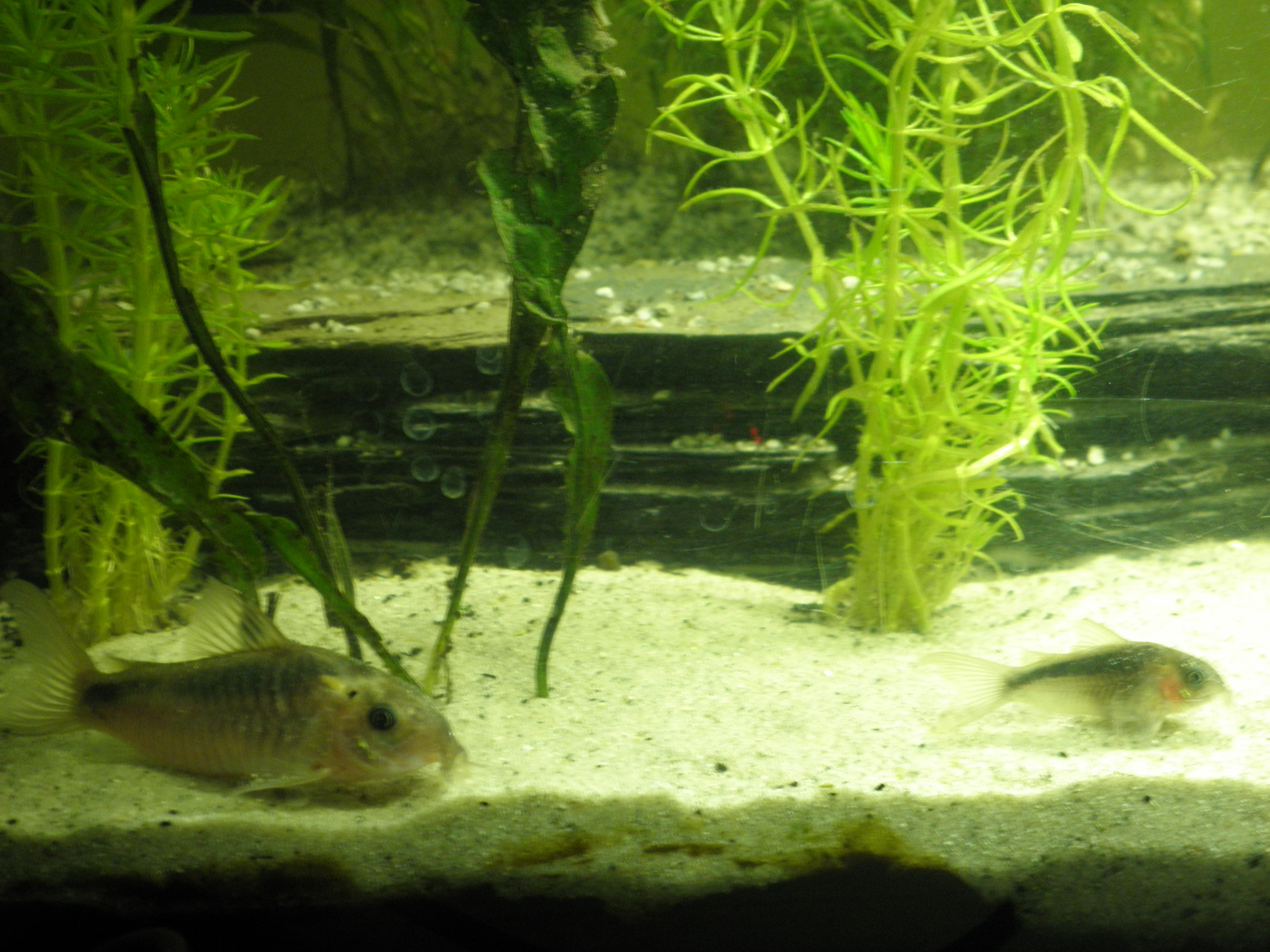 A old and young Black band catfish (Corydoras zygatus).